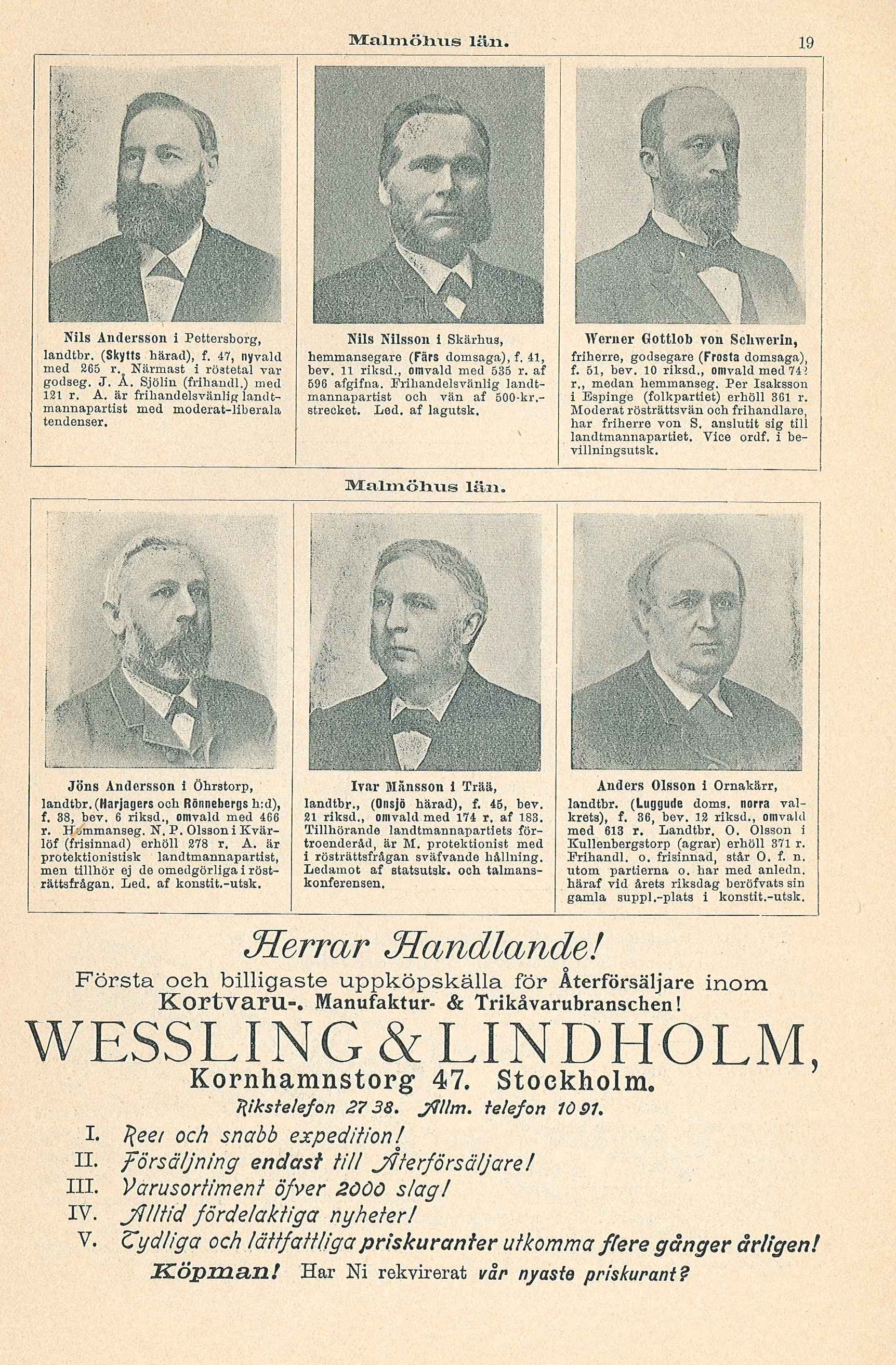 Page 19 of an album featuring portraits of all the members of the second chamber of the Swedish parliament (Sveriges riksdag) elected in 1897. This page featuring parts of the members representing the county of Malmöhus.